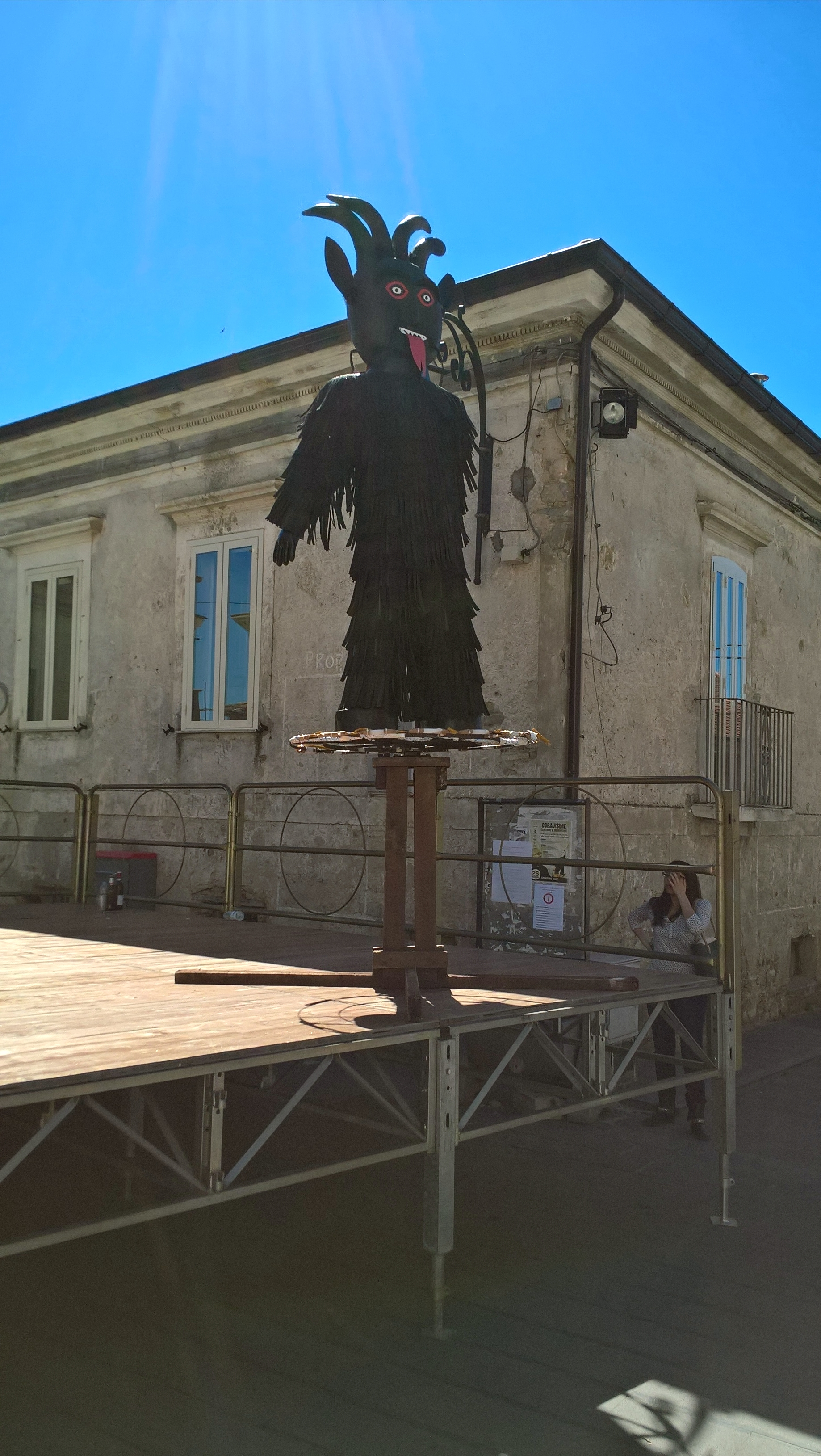 Nusazit (human-sized pappmaschee figure); the devil